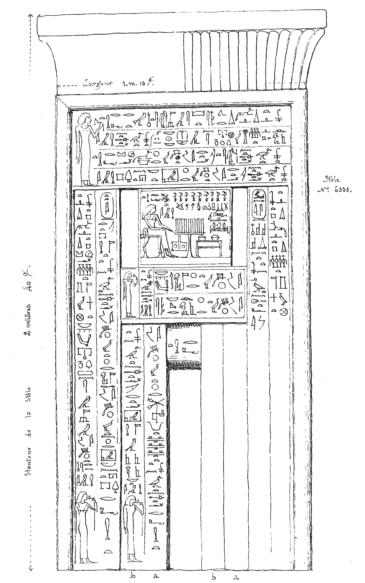 False door of Hemetre Hemi, daughter of Pharaoh Unas, Mastaba D 65 at Saqqara, early 6th dynasty